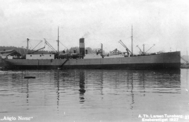 Whaling factory Anglo Norse (I), ex. Montcalm (1897), Crenella and Rey Alfonso